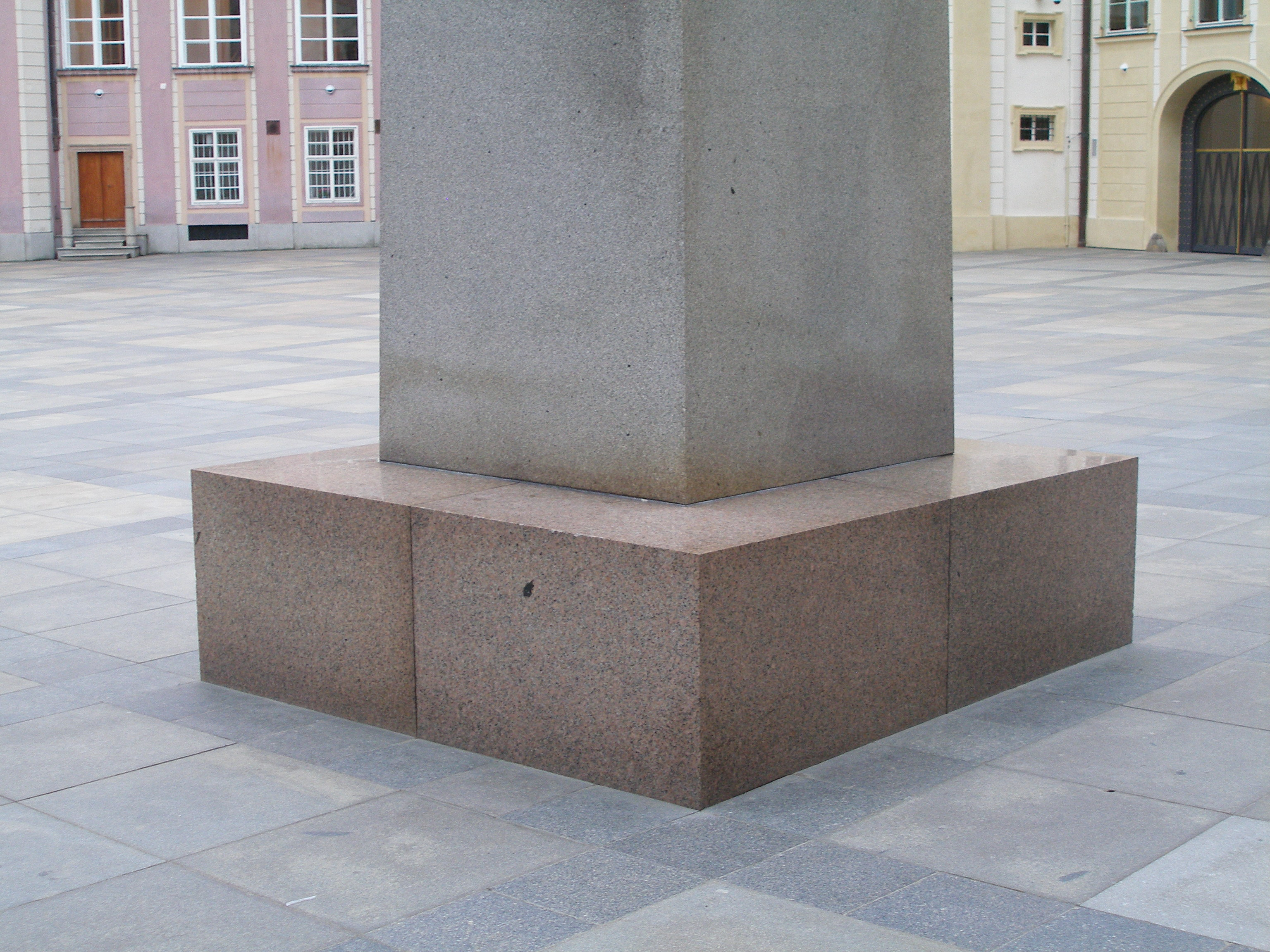 Obelisk in Prague Castle.